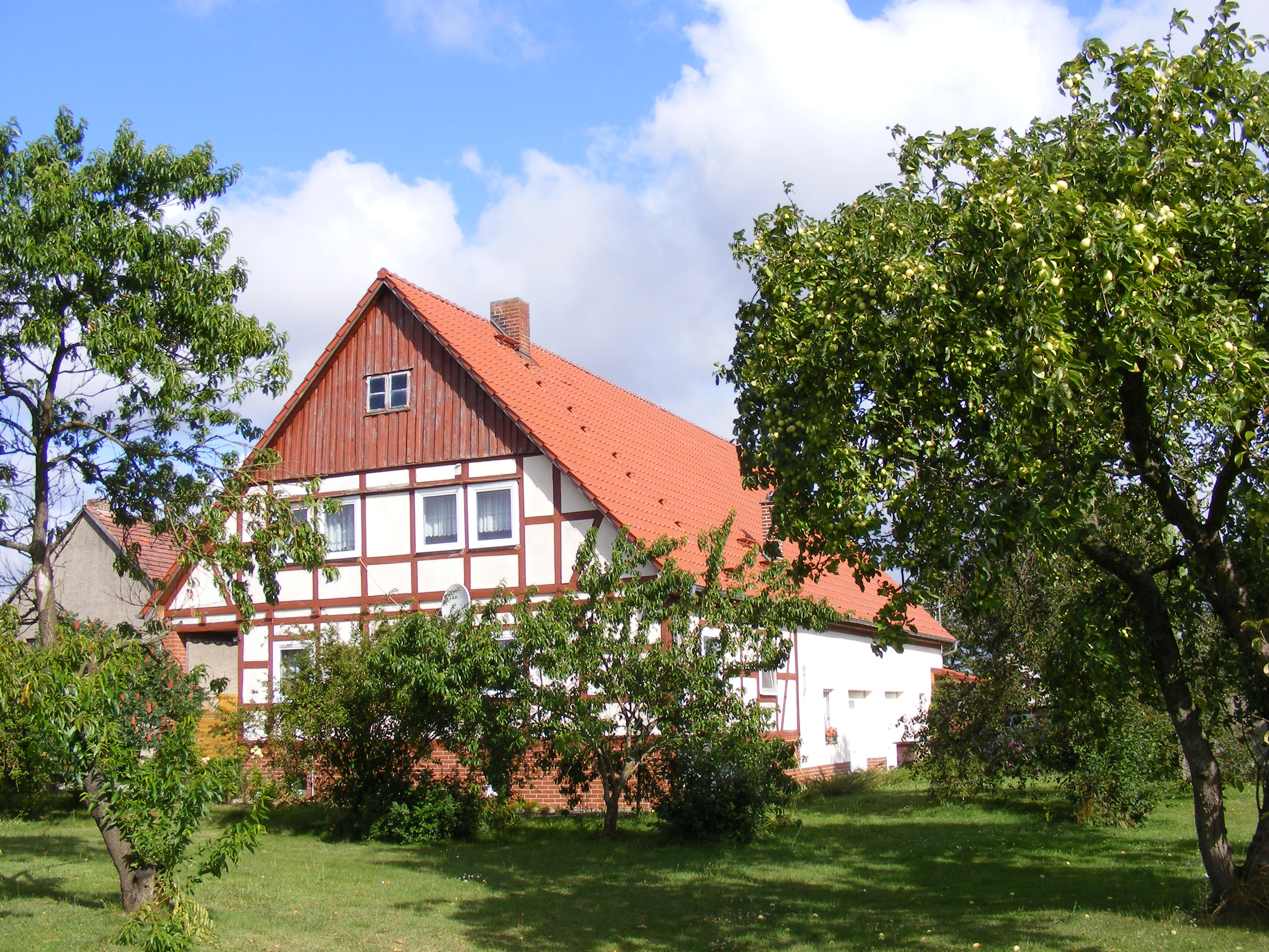 House in Swabian style in Schwabendorf, Mecklenburg